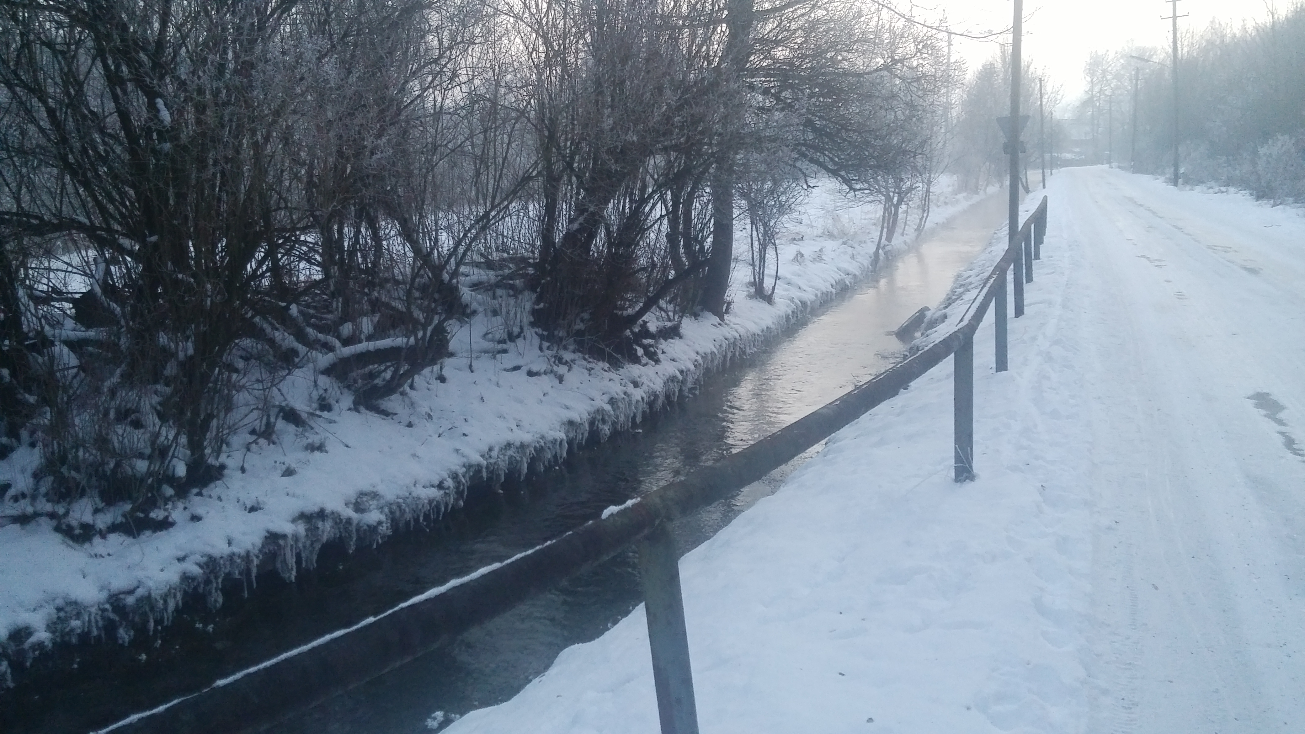 Feldmochinger Mühlbach